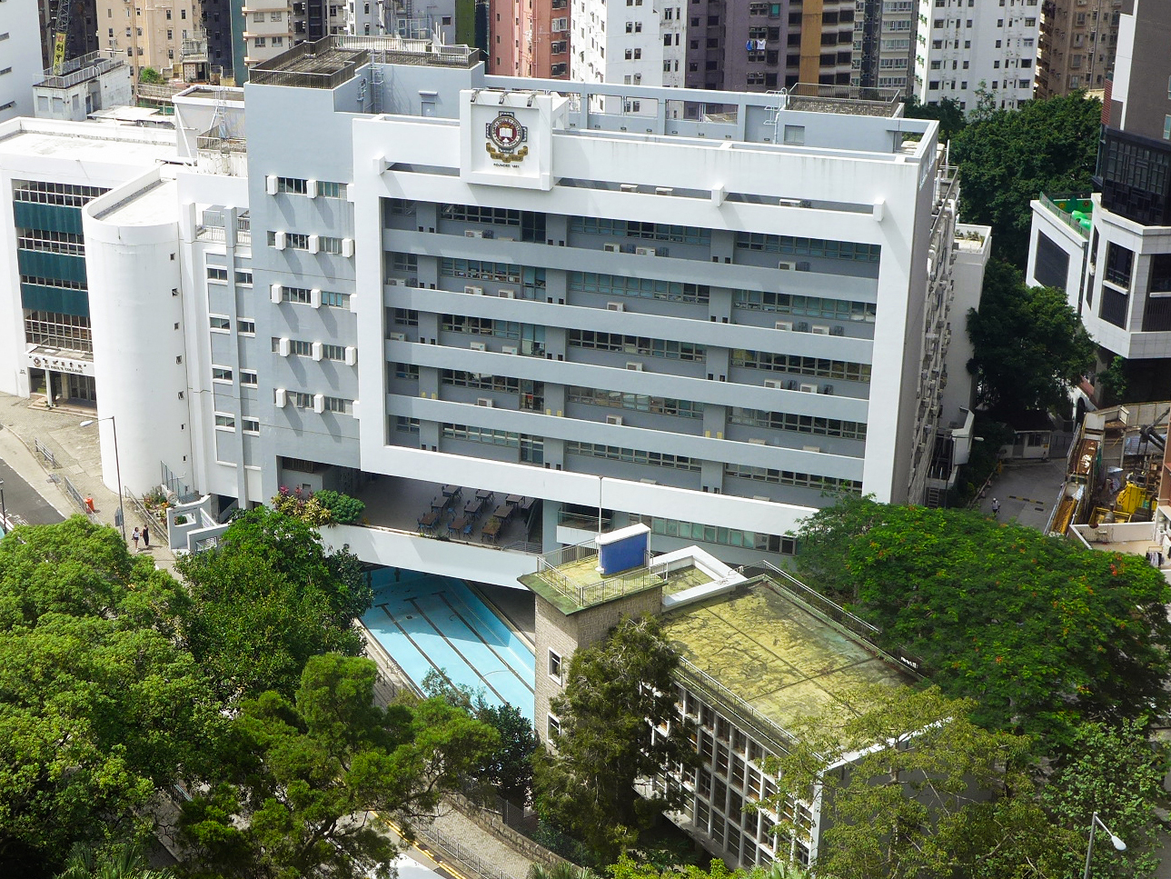 St. Paul's College